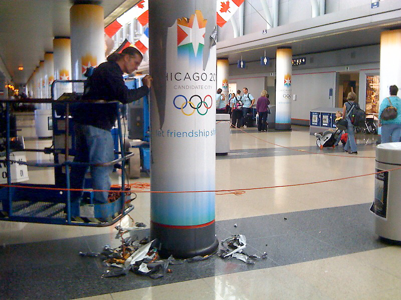 A somber sunday at O'Hare, after the IOC gave Chicago the least votes of any contending city for the 2016 Summer Olympics.